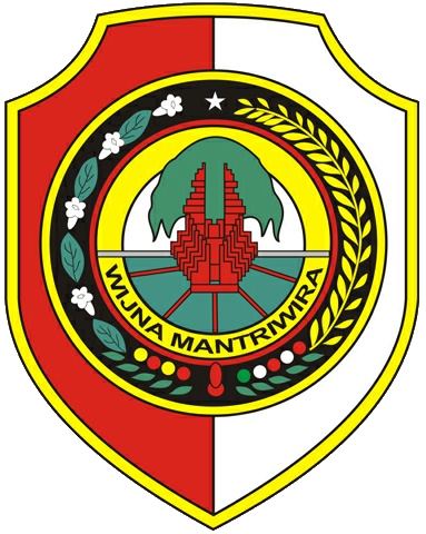 Seal of Mojokerto Regency